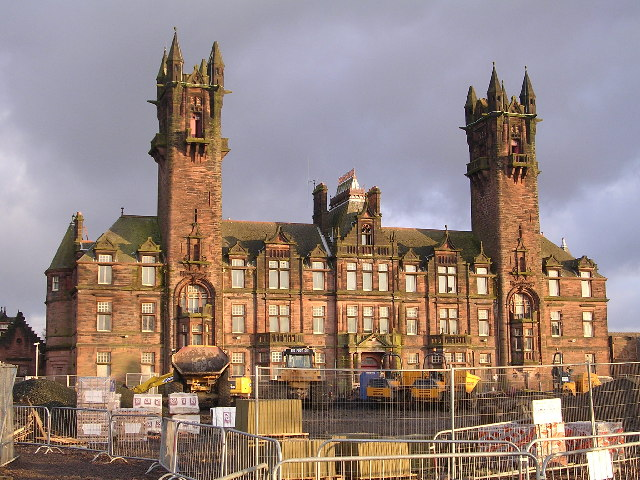 Gartloch Mental Hospital. Now being converted into luxury flats